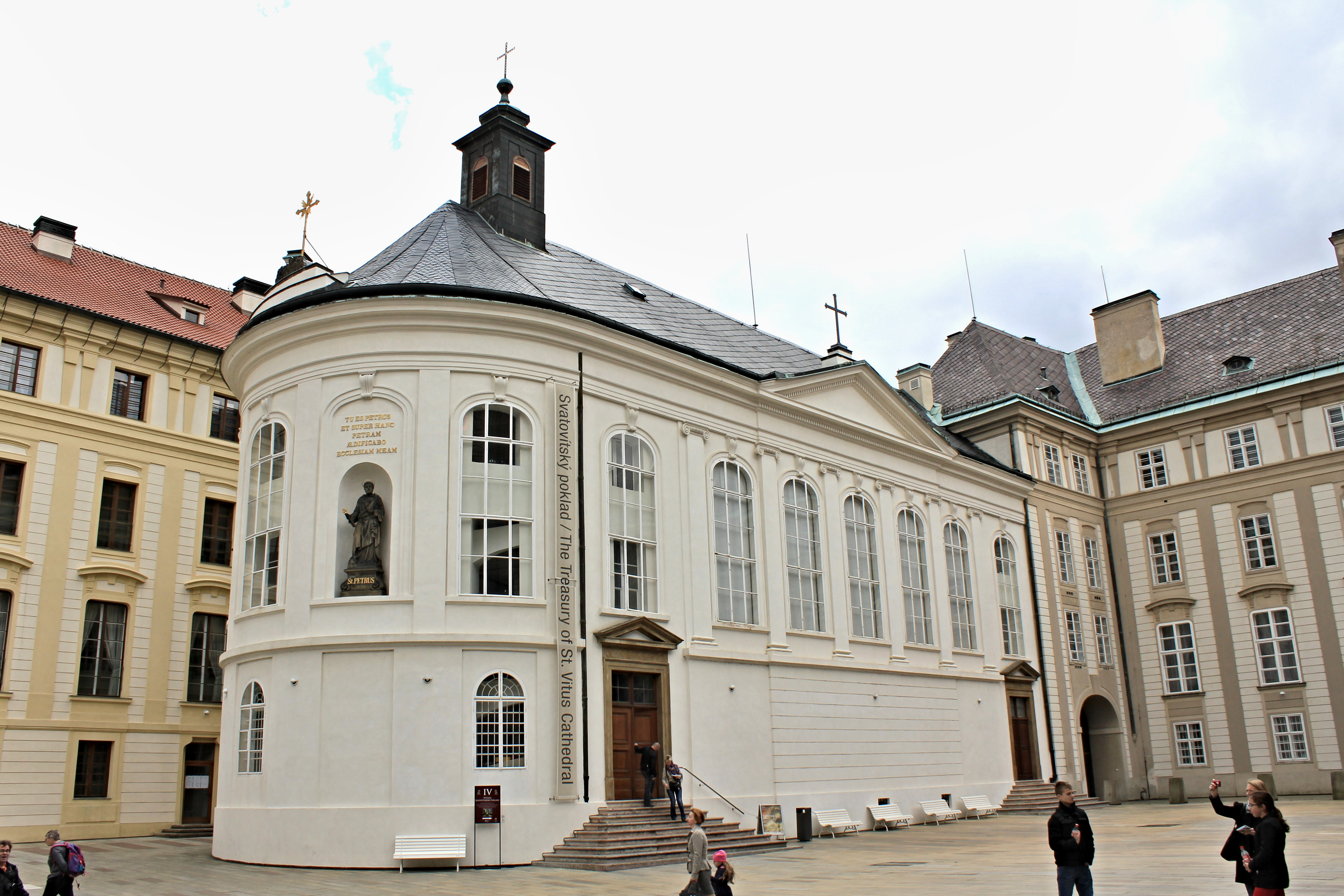 prague castle crusifix church